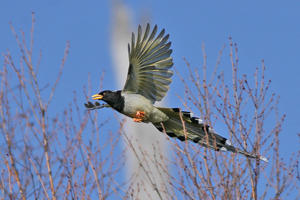 Yellow-billed Blue Magpie (Urocissa flavirostris). Chele La to Thimphu, Bhutan